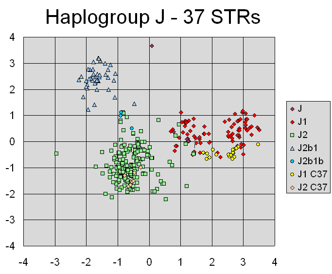 Principal Component Analysis plot for 354 Y-chromosome haplotypes from the public Ysearch database, identified as belonging to Y-DNA Haplogroup J and its subgroups. Data represent first and second most significant components calculated from 37 Y-STR markers. The different J1, J2 and J2b subhaplogroups are resolved clearly into different clusters. Additional structure can be revealed by calculating further PCAs for each of the subgroup memberships separately. The labels J1 C37 and J2 C37 identify haplotypes often associated with Cohen lineages.